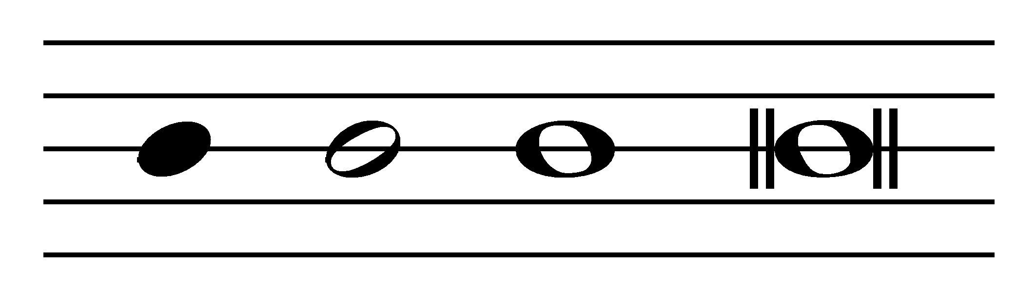 Difference between quarter (and all faster notes), half, and whole note noteheads.